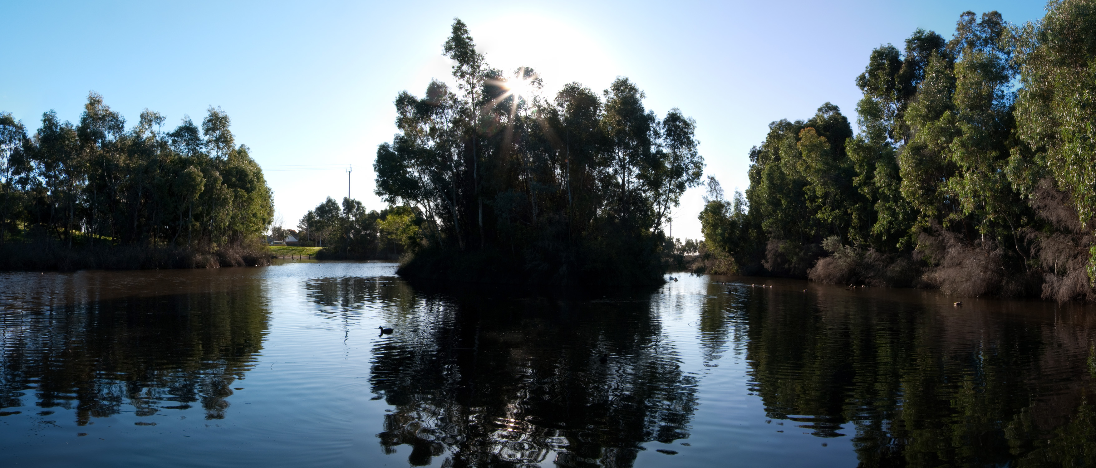 The Warriparinga wetlands in the City of Marion, South Australia were opened to the public in December, 1998. Designed to filter stormwater that flowed into the Patawalonga, it was stocked with native fish and surrounded with native plant species.